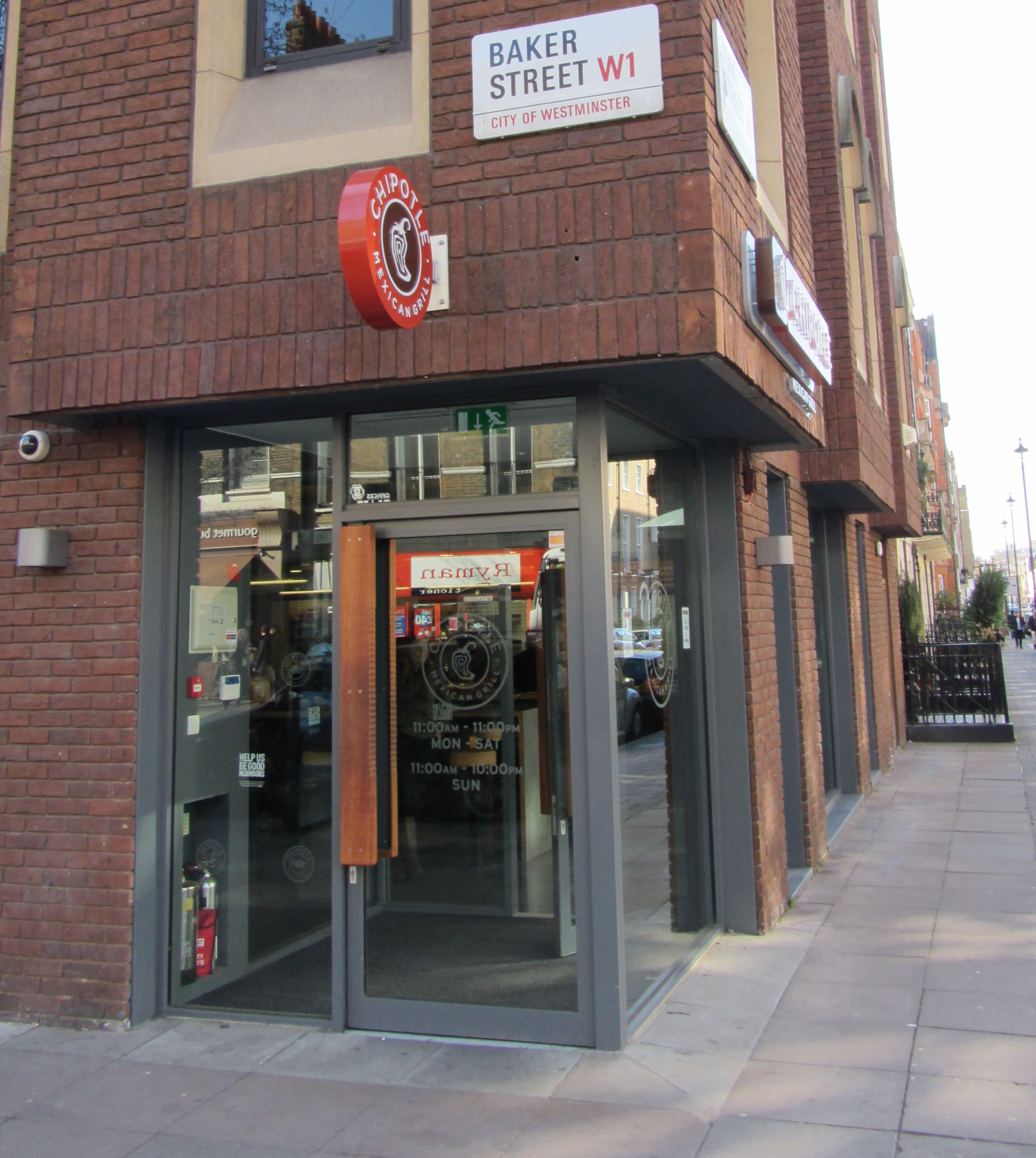 Chipotle Mexican Grill location on Baker Street in London, England